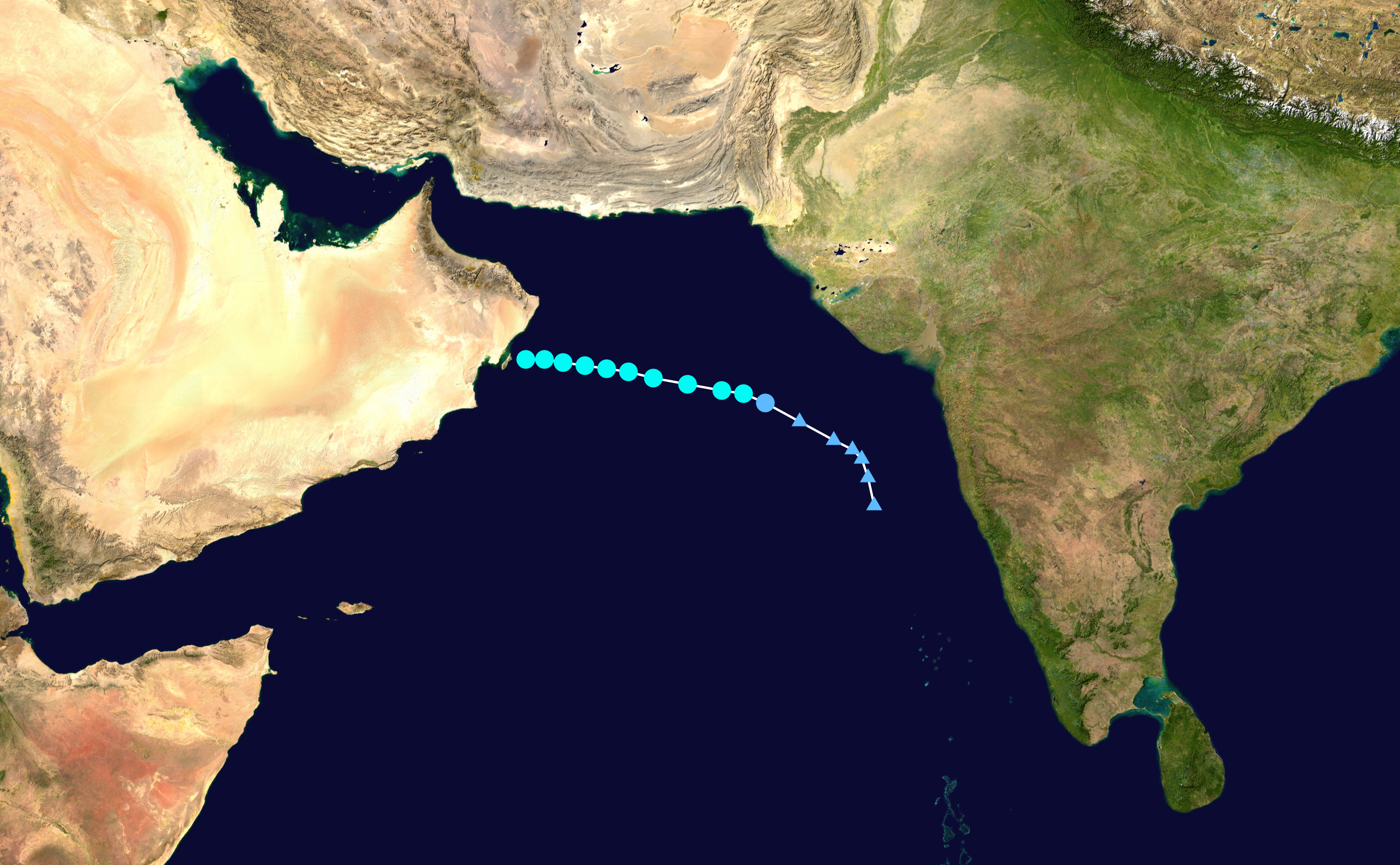 Track map of Tropical Cyclone 02A of the 1977 North Indian Ocean cyclone season. The points show the location of the storm at 6-hour intervals. The colour represents the storm's maximum sustained wind speeds as classified in the Saffir-Simpson Hurricane Scale (see below), and the shape of the data points represent the nature of the storm, according to the legend below. Saffir–Simpson hurricane wind scale Tropical depression≤38 mph≤62 km/h Category 3111–129 mph178–208 km/h Tropical storm39–73 mph63–118 km/h Category 4130–156 mph209–251 km/h Category 174–95 mph119–153 km/h Category 5≥157 mph≥252 km/h Category 296–110 mph154–177 km/h Unknown Storm typeTropical cycloneSubtropical cycloneExtratropical cyclone / Remnant low / Tropical disturbance